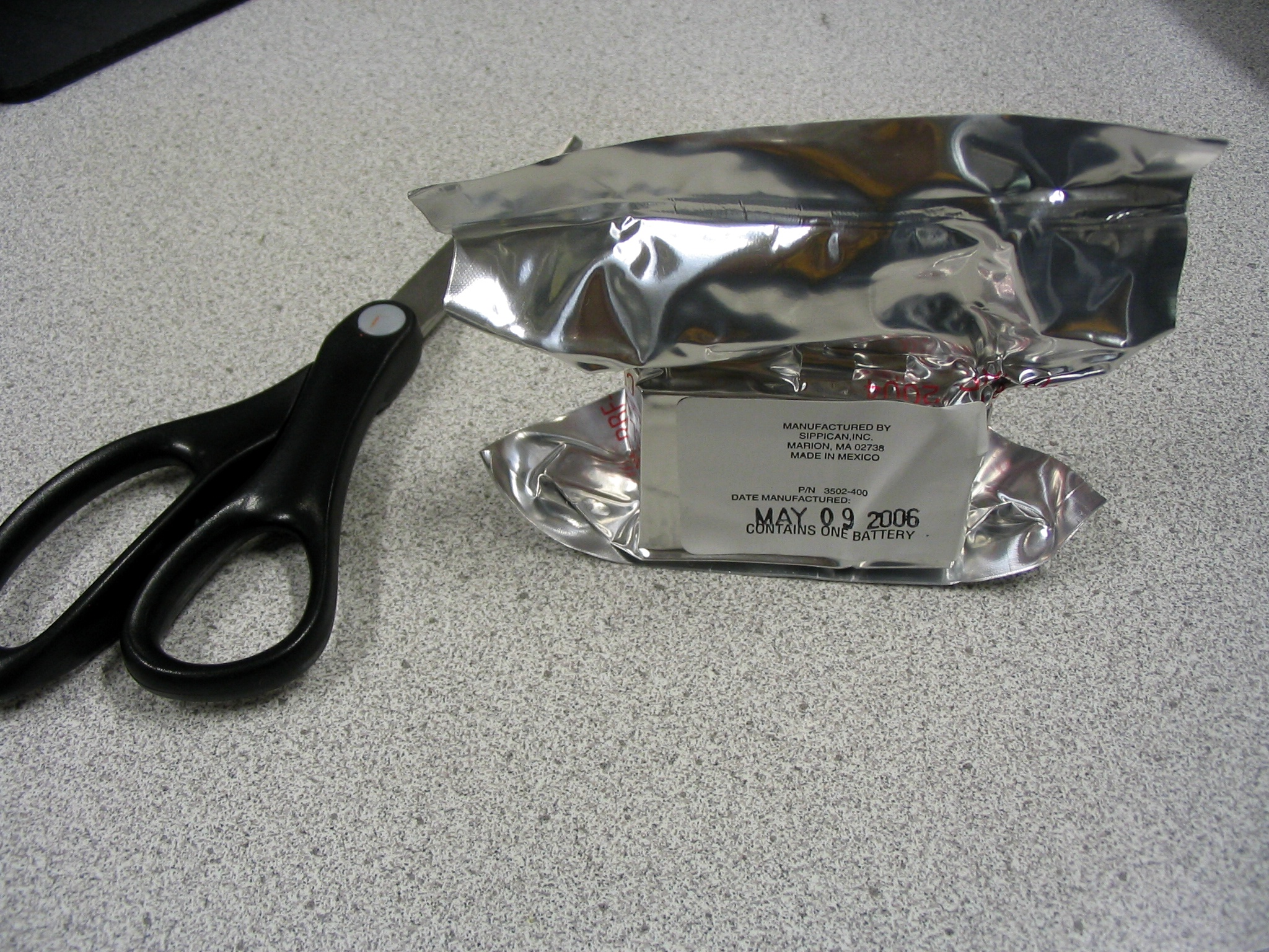 A low-voltage water activated battery still in its protective wrapper. This battery is intended for use with Loran radiosondes (weather balloons).